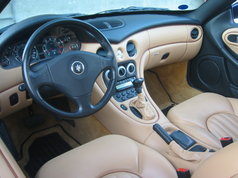 Interior of a Maserati 3200GT - 2000